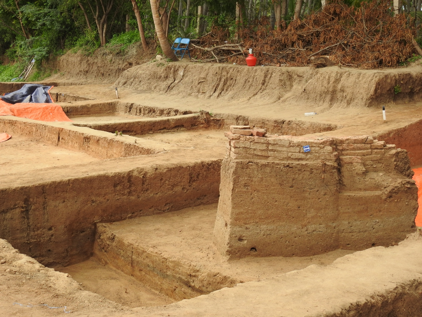 Artefacts from Keezhadi Tamil Civilization